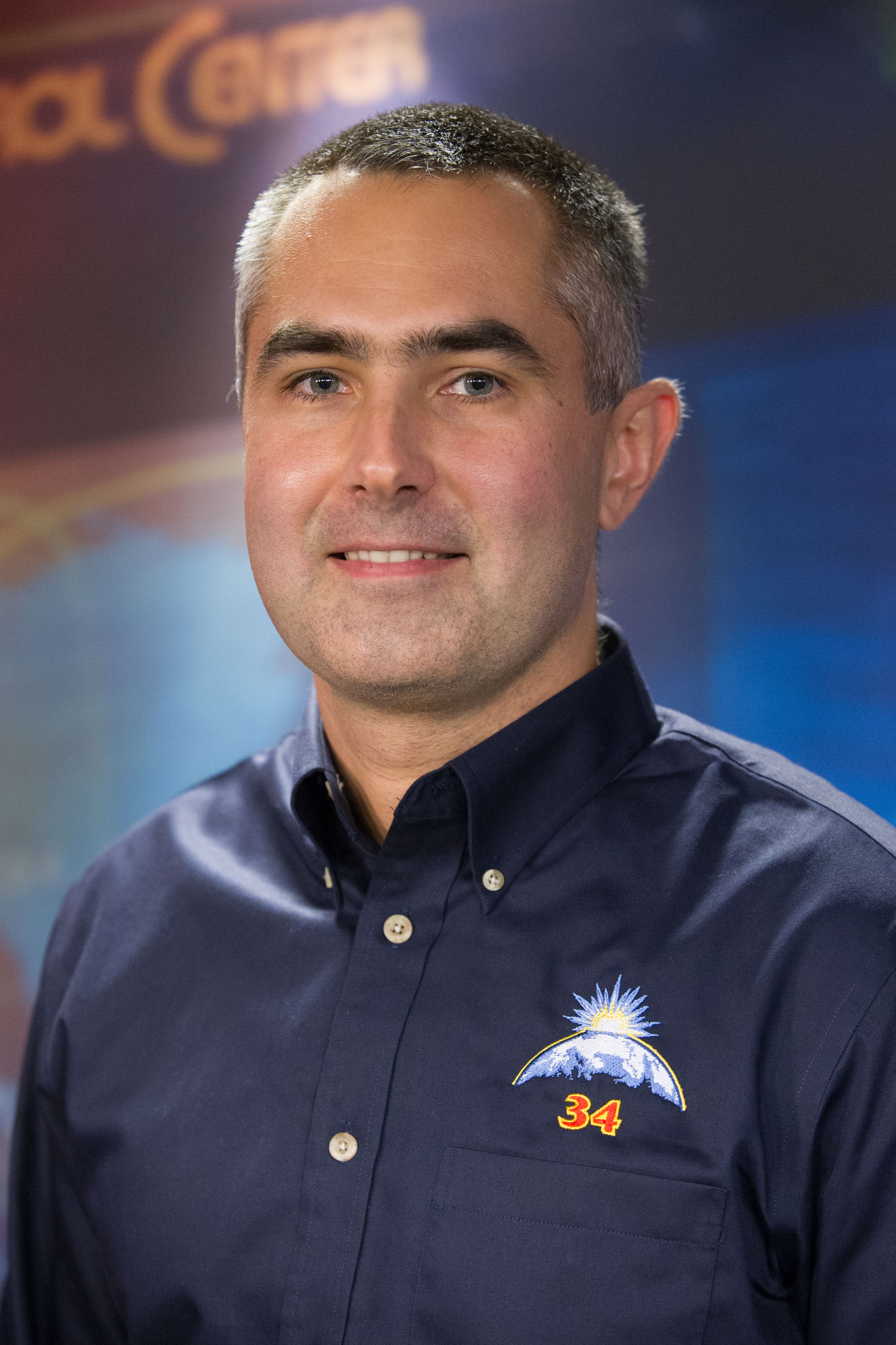 Russian cosmonaut Evgeny Tarelkin, Expedition 33/34 flight engineer, poses for a portrait following an Expedition 33/34 preflight press conference at NASA's Johnson Space Center.